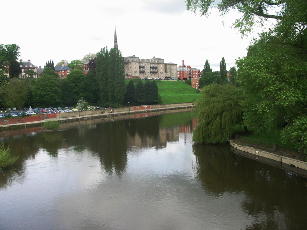 Photo taken by Chris Bayley with a Canon PowerShot A20. A view of the Severn at Shrewsbury from the English Bridge.